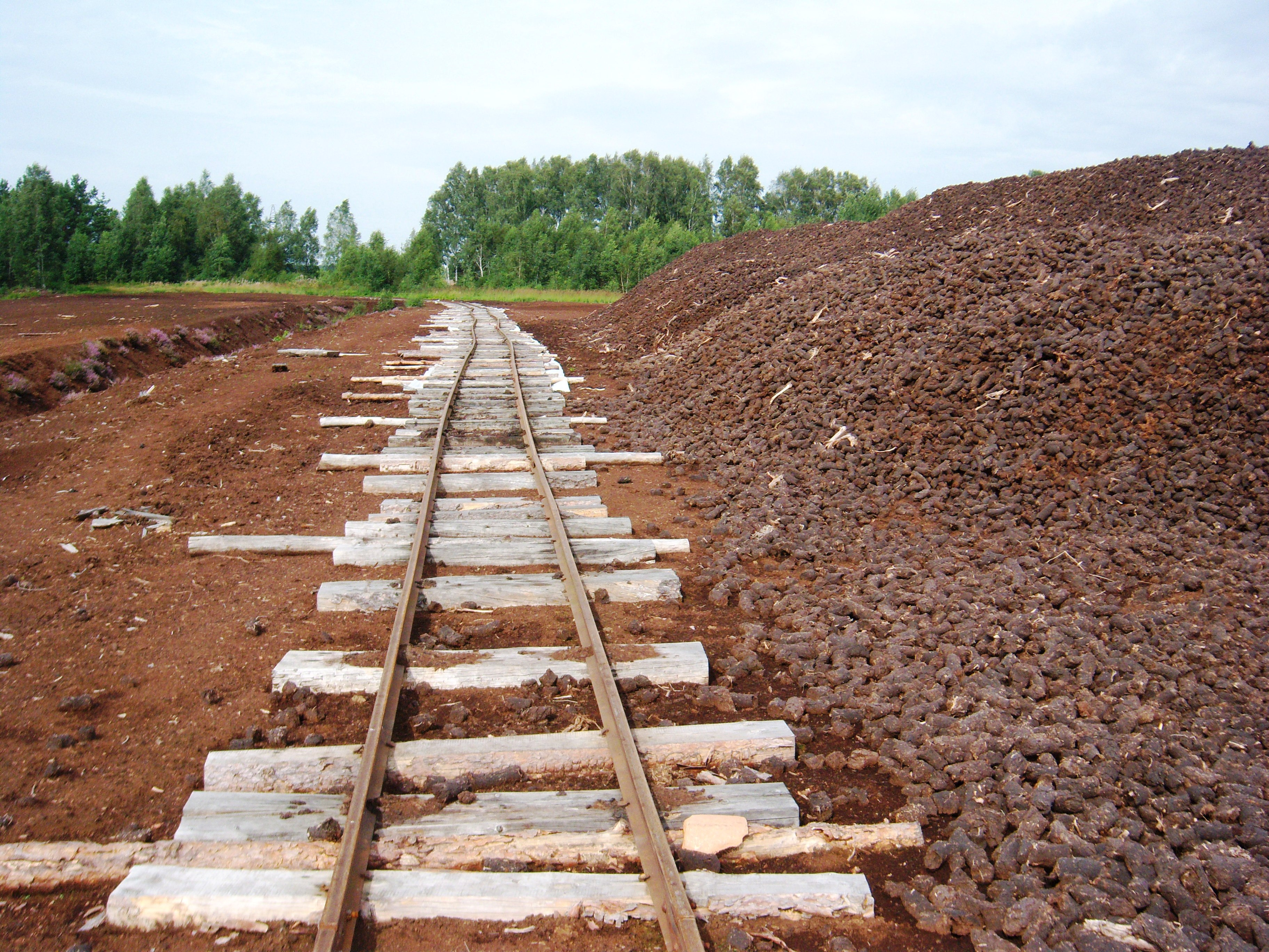 Ežerėlis bog, Kaunas district, Lithuania